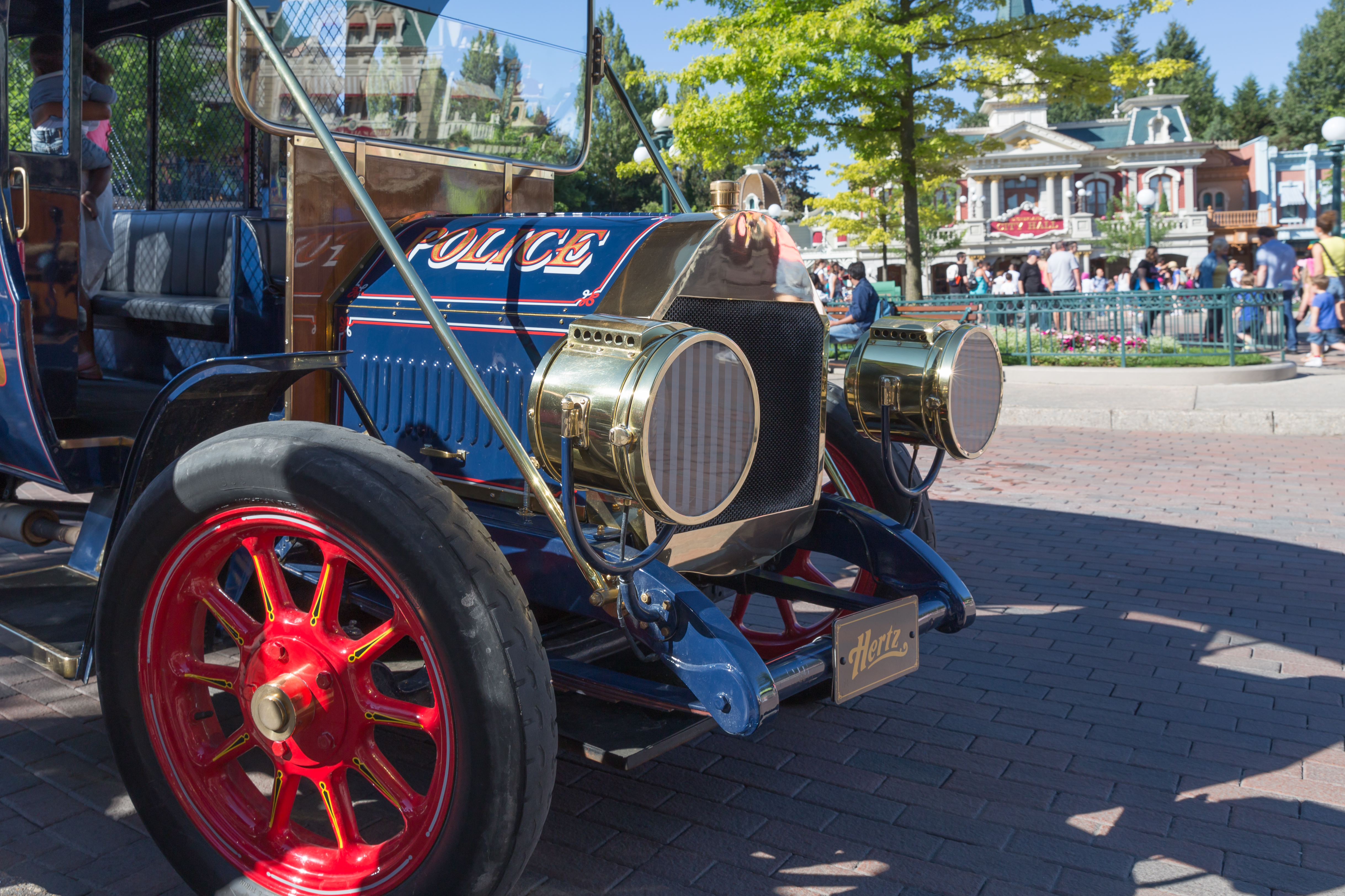 "Paddy Wagon", a police car from the 1920s to Disneyland Paris.